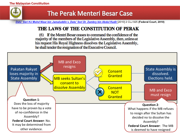 A diagram of the issues and holding of the Malaysian Federal Court's 2010 decision on the Perak Menteri Besar case